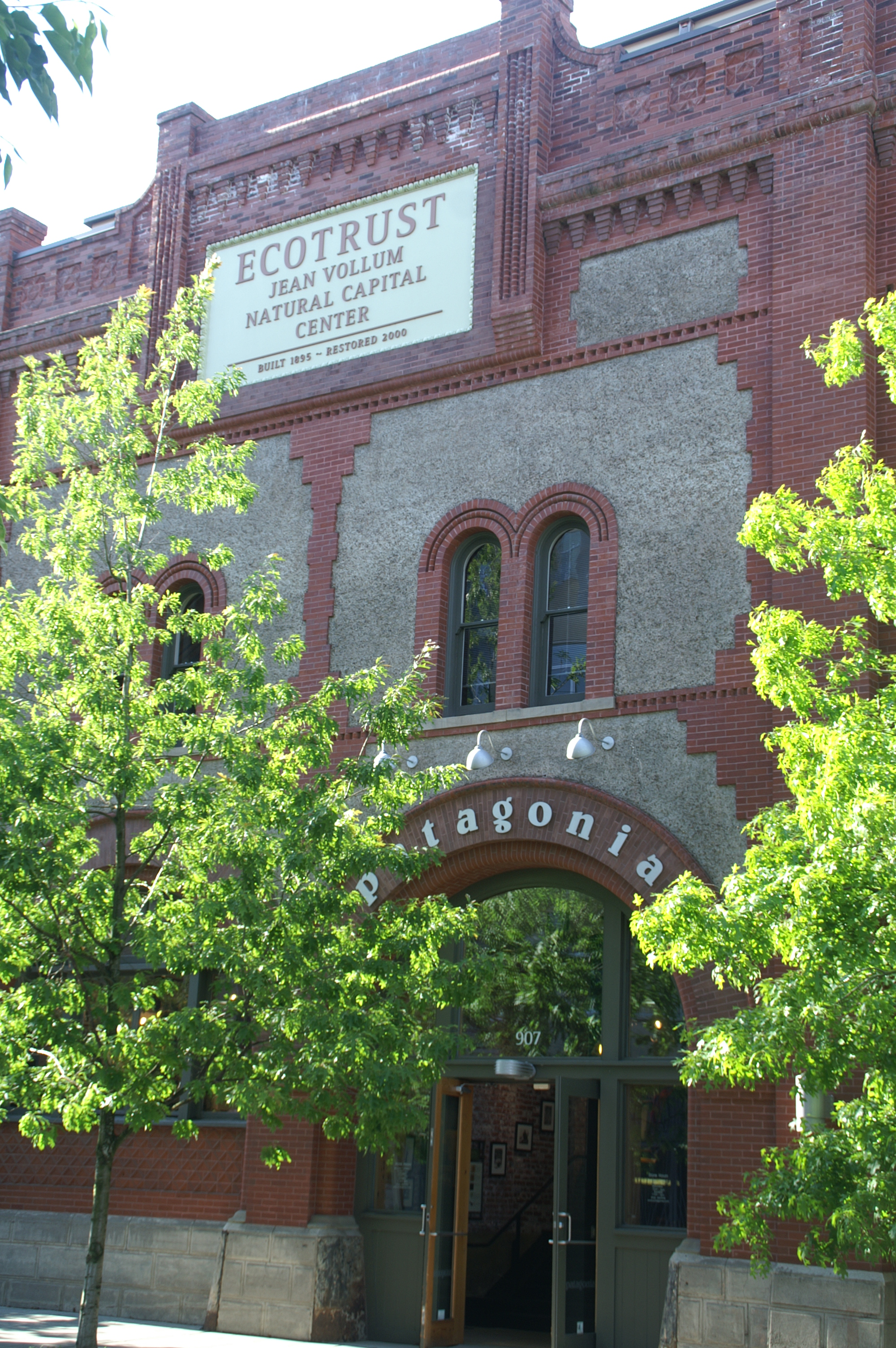 The south end of the Ecotrust Building, in Portland, Oregon. The 1895 building is formally known as the Jean Vollum Natural Capital Center.